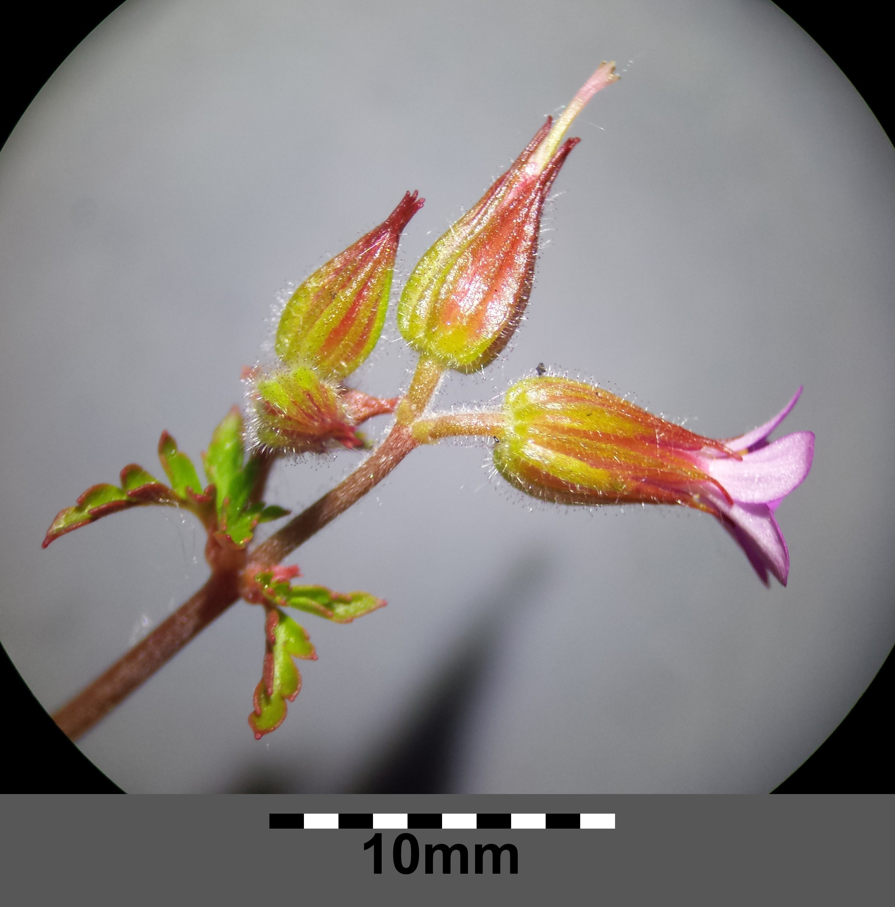 Inflorescence Taxonym: Geranium purpureum ss Fischer et al. EfÖLS 2008 ISBN 978-3-85474-187-9 Location: Jedlersdorf rail station, Vienna-Floridsdorf - ca. 160 m a.s.l. Habitat: ballast